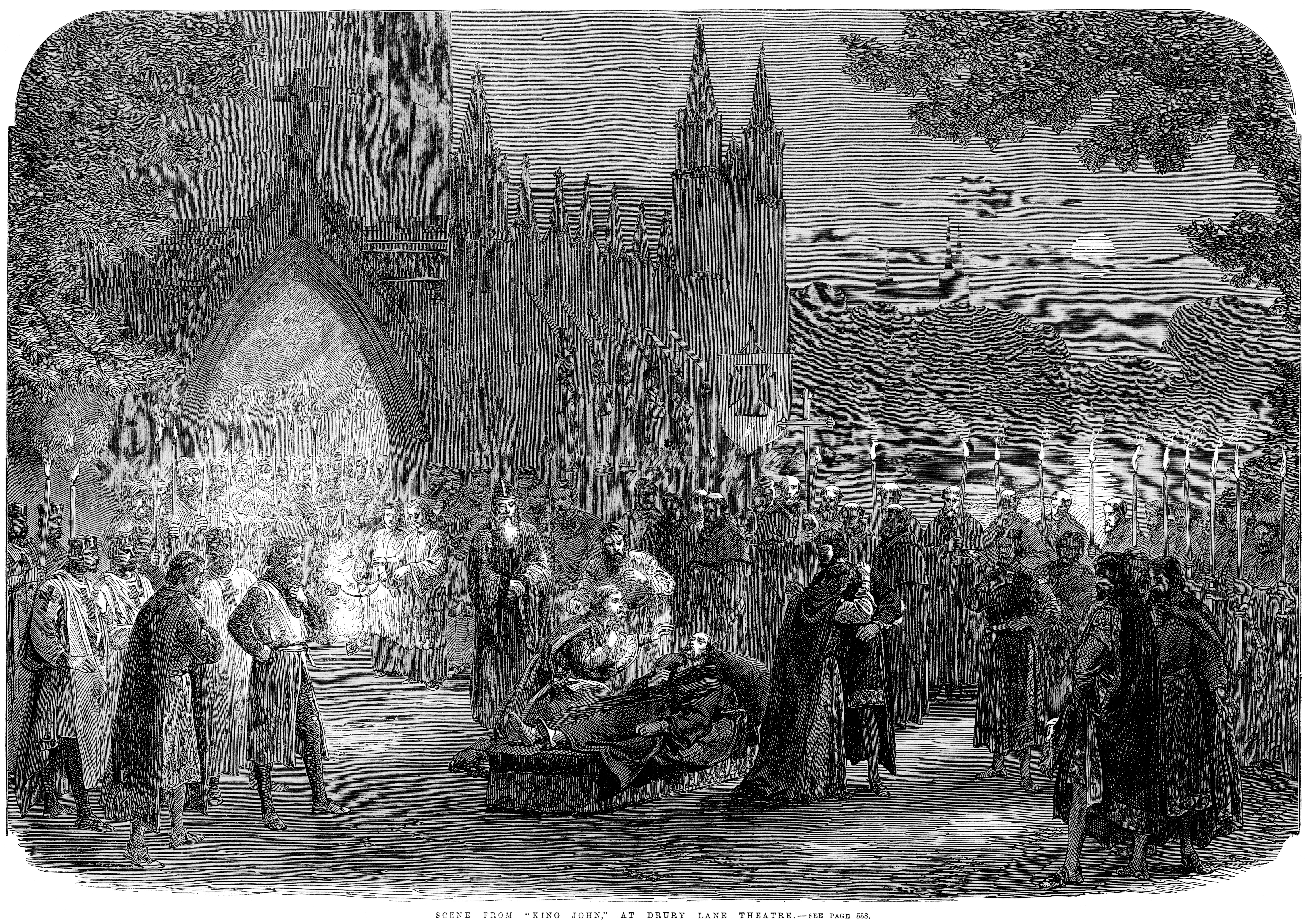 SCENE FROM "KING JOHN" AT DRURY-LANE THEATRE This revival of one of Shakspeare's [sic] noblest historical plays has continued, since the first week of November, to attract very good audiences to Drury-lane&emdash;Mr. Phelps still maintaining the part of the King, and Miss Atkinson that of Queen Constance; while that of the bastard Falconbridge is played by Mr. James Anderson, and Mr. Swinburne represents the gaoler Hubert. The scenery, painted by Mr. Beverley, is most effective and characteristic, especially the interior of the ancient Gothic hall, with its rich tapestries and hangings; the walls and castle of the beleagured town of Angiers; Northampton Castle likewise, and Swineshead Abbey, near Boston, in Lincolnshire, are set before the spectators with Mr. Beverley's usual success. The last scene, of which we present an Illustration, shows the death of King John on his couch in the cloistered-garden of Swineshead Abbey, where the soft moonlight, mixed with the rays of few lamps or torches, struggles through the mist of the evening, and harmonises witht he solemn interest of the occasion. --Descrtiption in The Illustrated London News, Dec. 9, 1865, p. 558